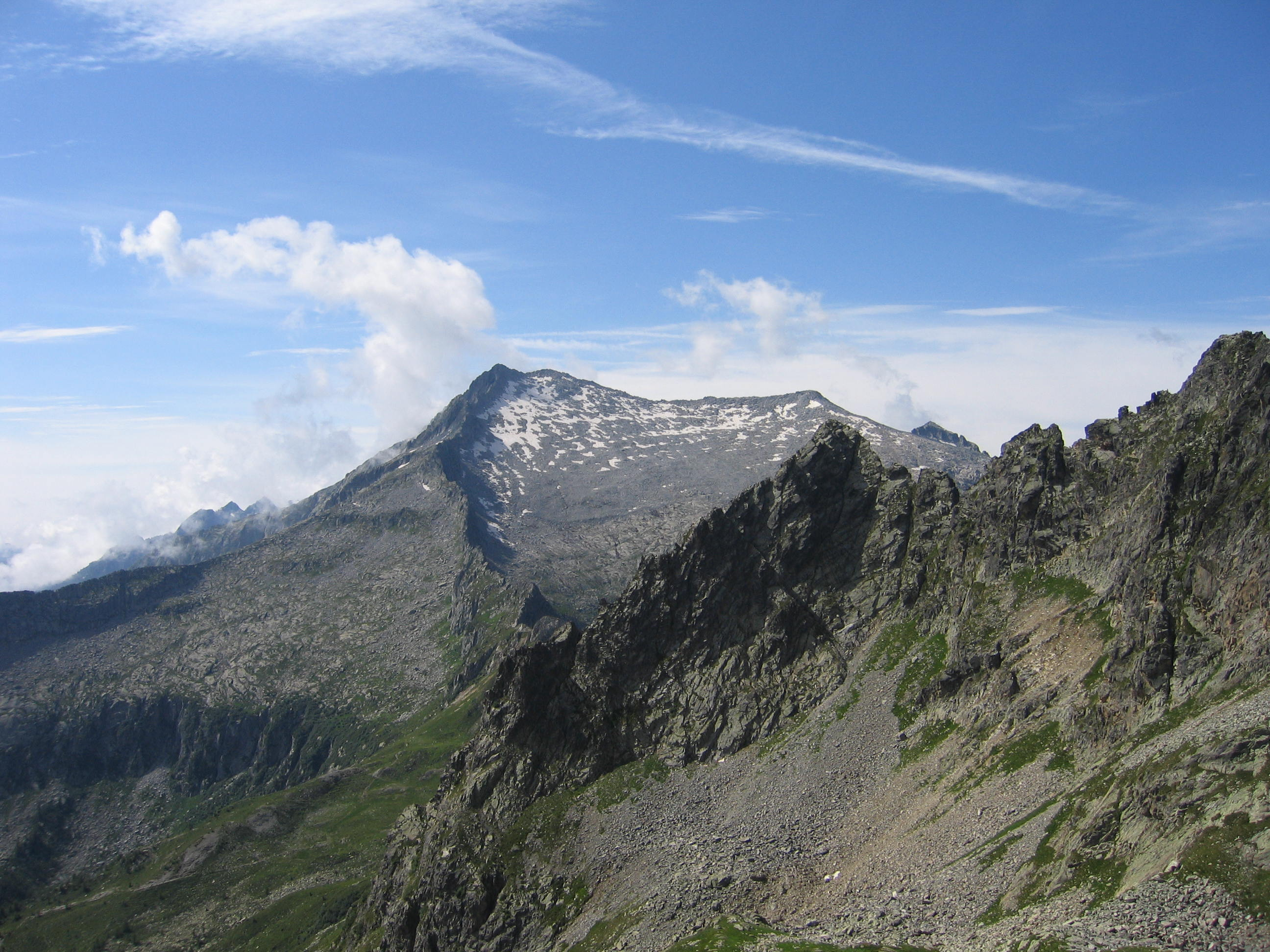 Mount Re di Castello, in Italian Alps